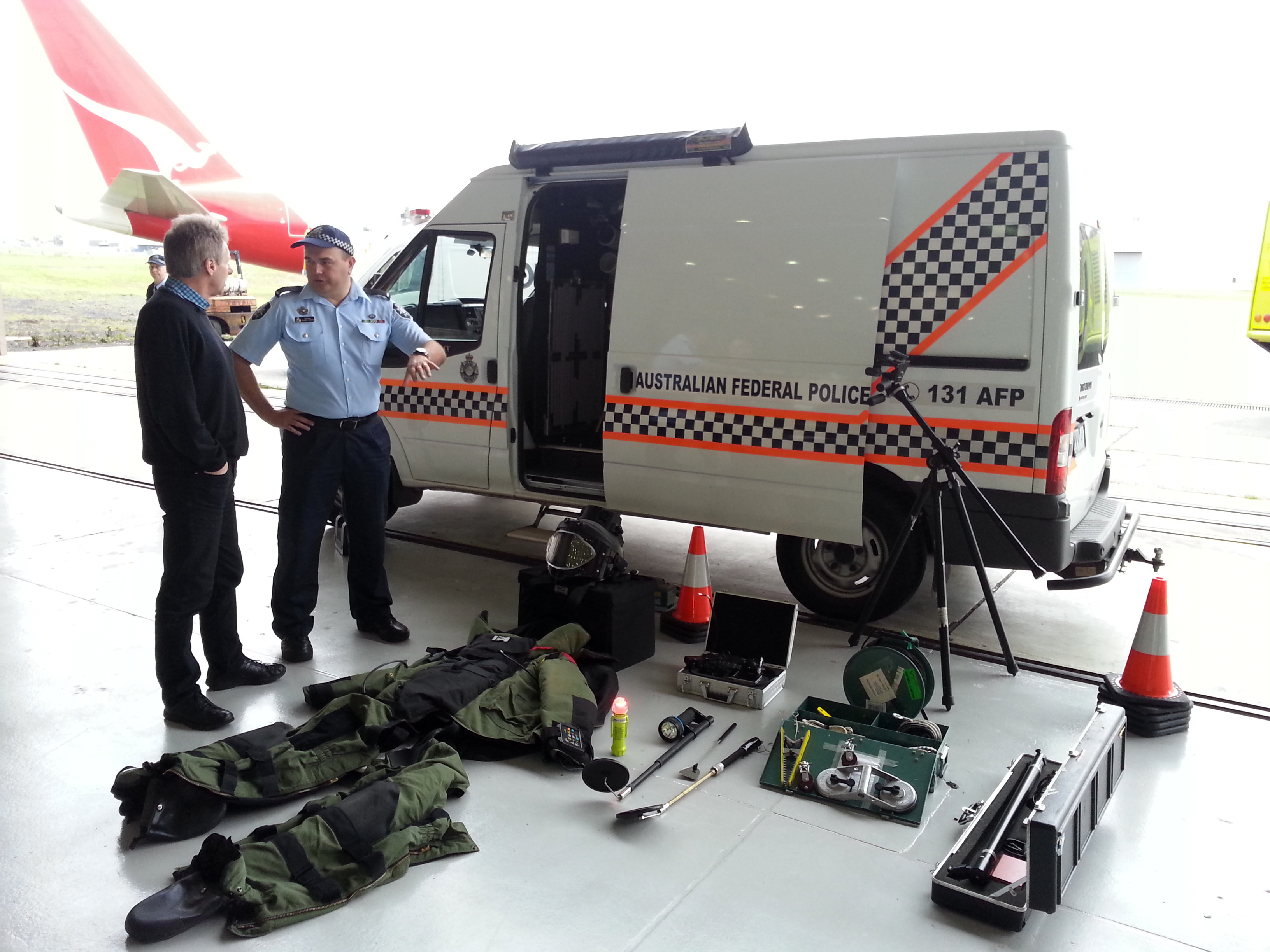 On 13 October we celebrated the arrival of our first Boeing 787 Dreamliner aircraft with a family day at Melbourne Airport. More information about the 787 here